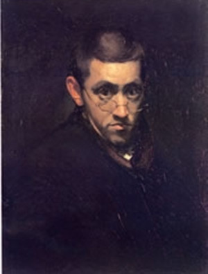 Kanayama by himself